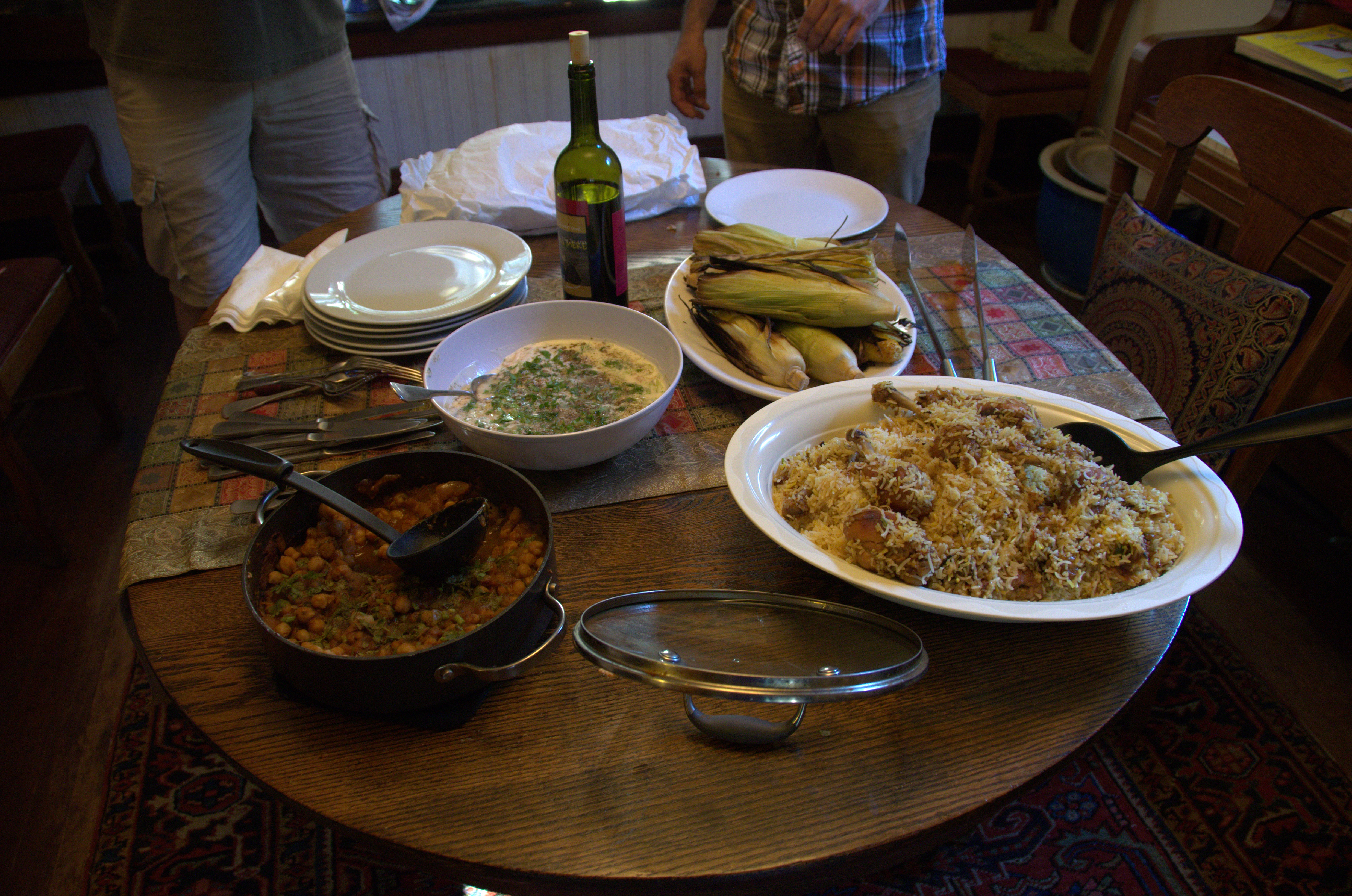 Thalassery biriyani at dining